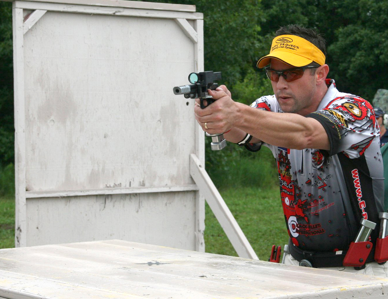 Open division master class competition shooter